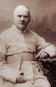 Vincent Sekowski, last Superior General of the Marians before the Renovation of the Order in 1909